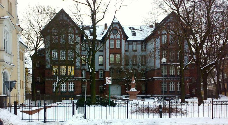 Old School in Wildecki Market in Poznan.